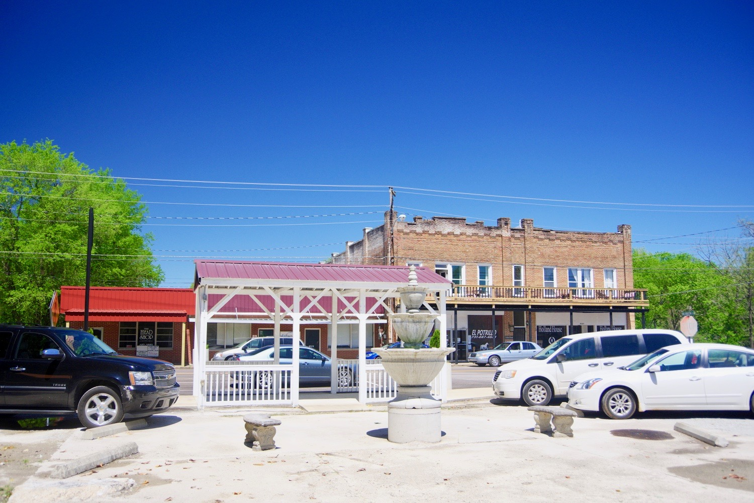 Buildings along Main Street (State Route 69) in Saltillo, Tennessee, United States.